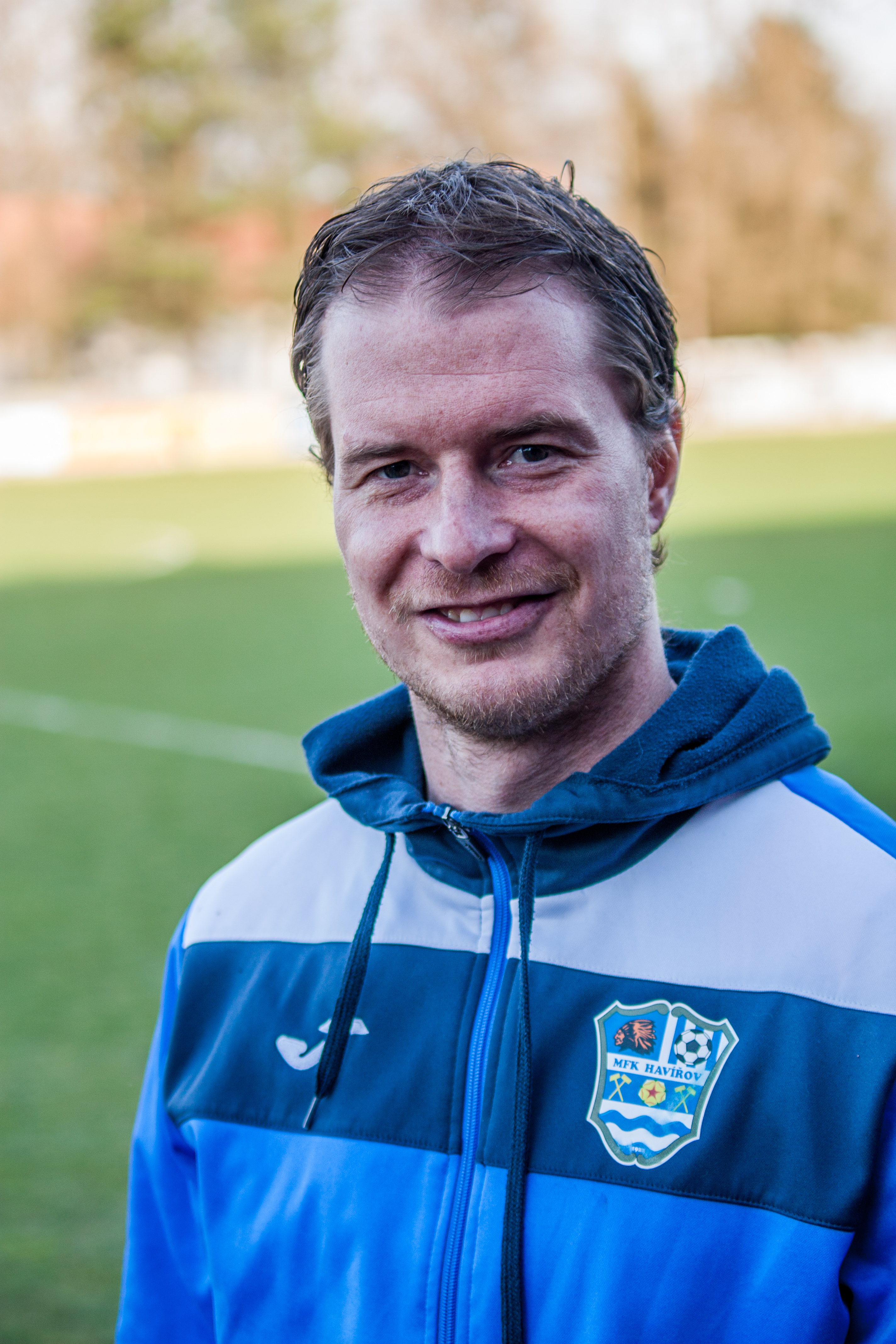 Pavel Malcharek with MFK Havířov after Czech Division E 2018/19 match in Dětmarovice, Karviná District, Moravian-Silesian Region, Czechia